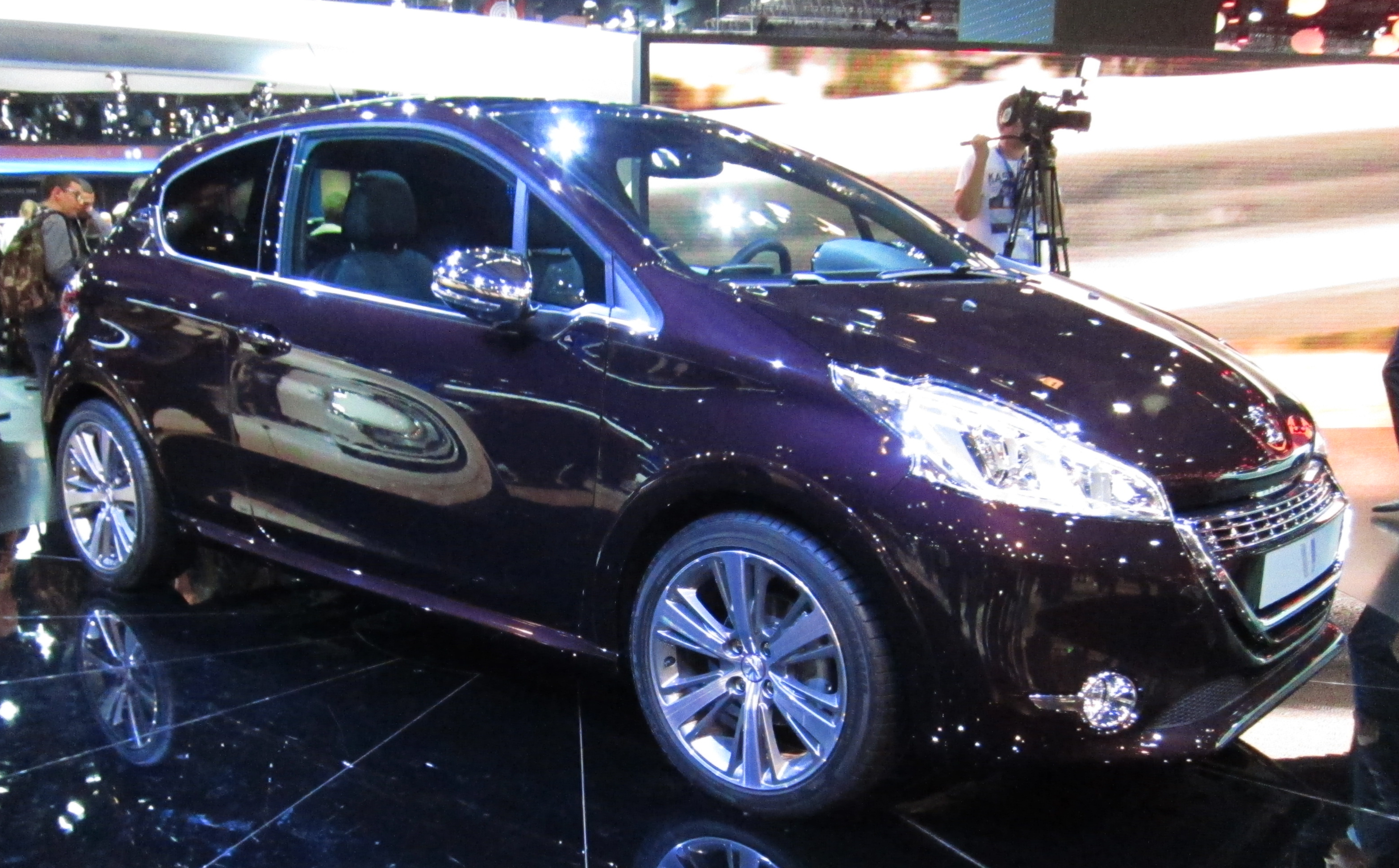 Peugeot 208 XY at Mondial de l'Automobile Paris 2012